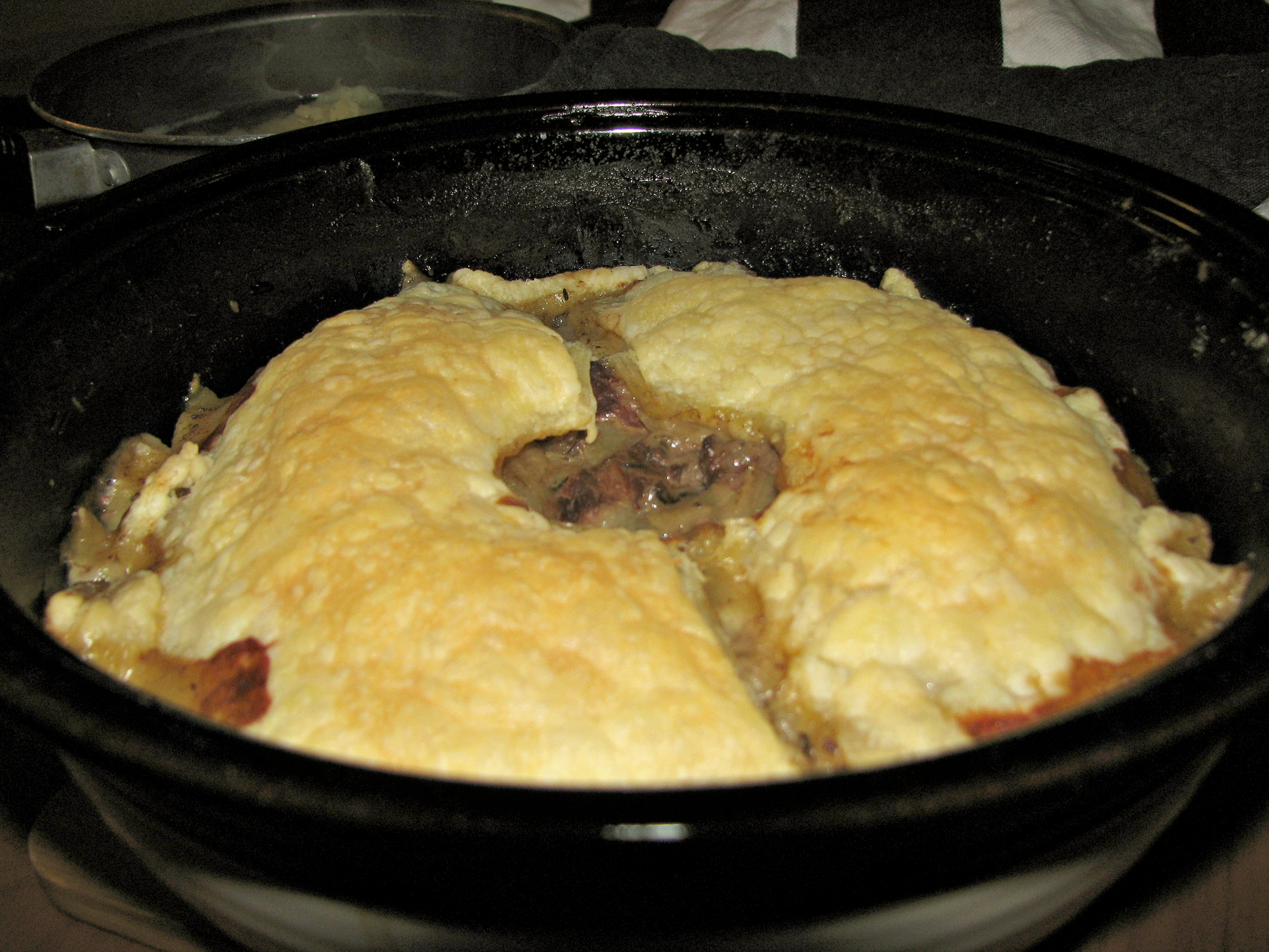 A small steak and kidney pie made as a one crust pie with puff pastry for a lid.